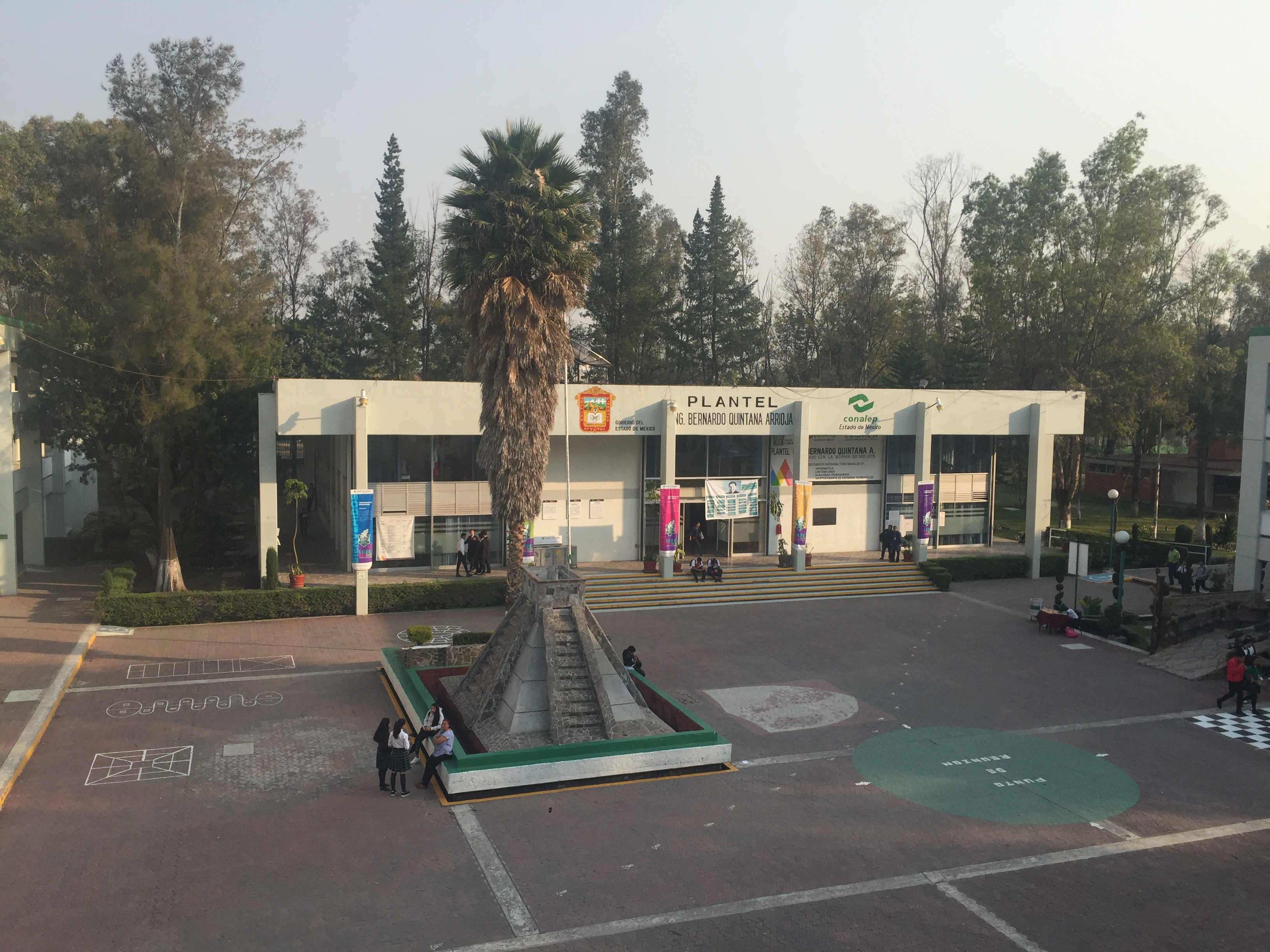 This is a photo I took from the campus of Conalep in Cuatitlán Izcalli Mexico state, Ing. Bernardo Quintana Arrioja on December 10, 2019.